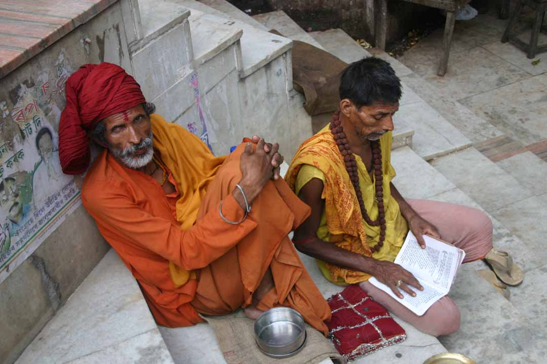 Sadhu with apprentice in Assam, India.